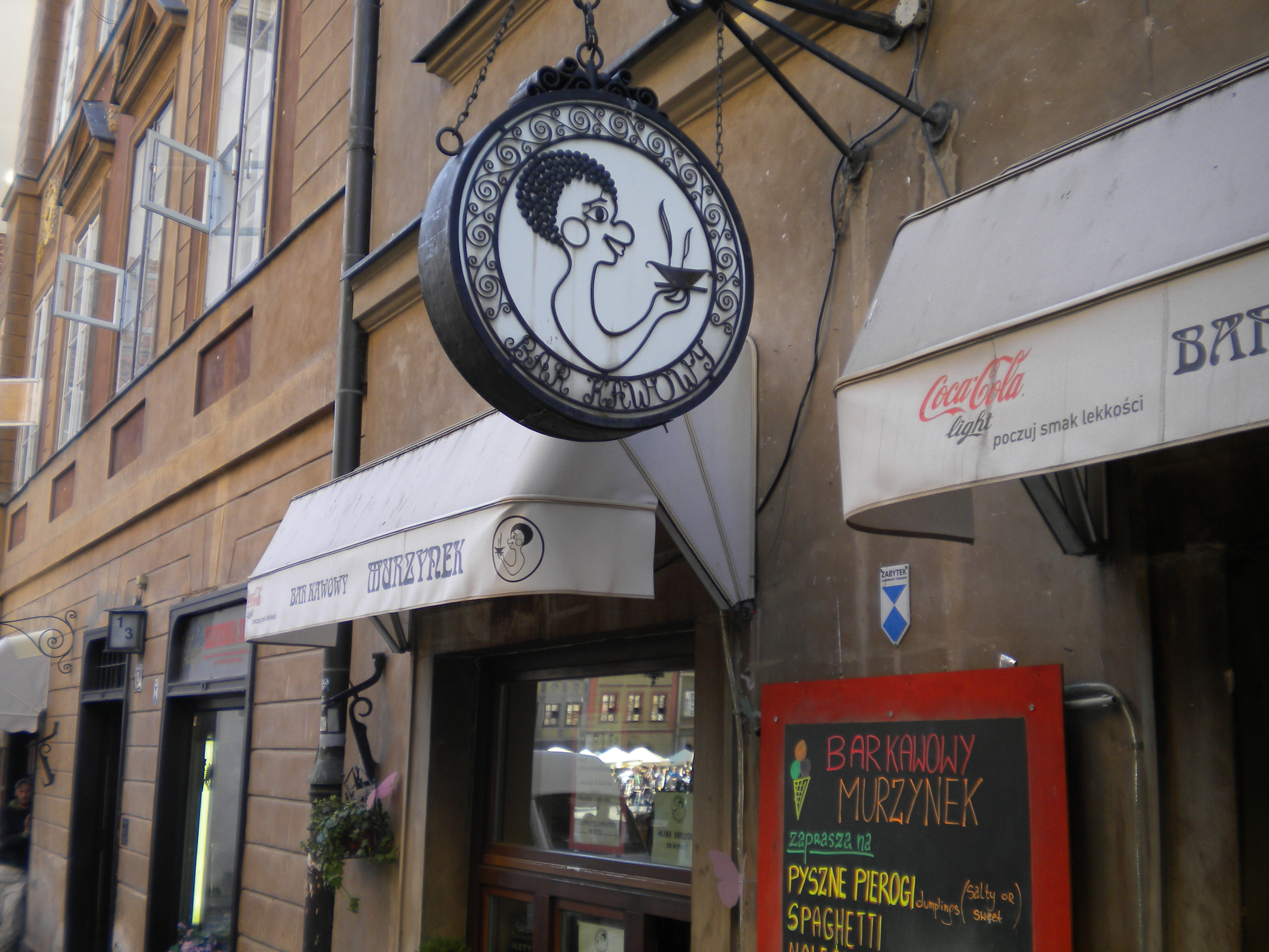 Cafe 'Murzynek' in Warsaw, October 2011, located on ulica Nowomiejska 1/3 - just off Old Town Square